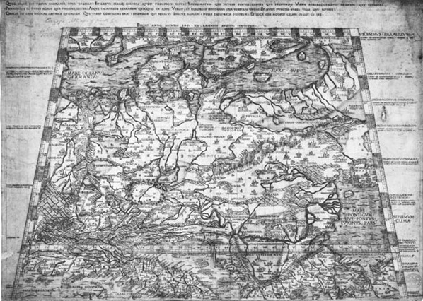 Map of Central Europa of Nikolas Cusa